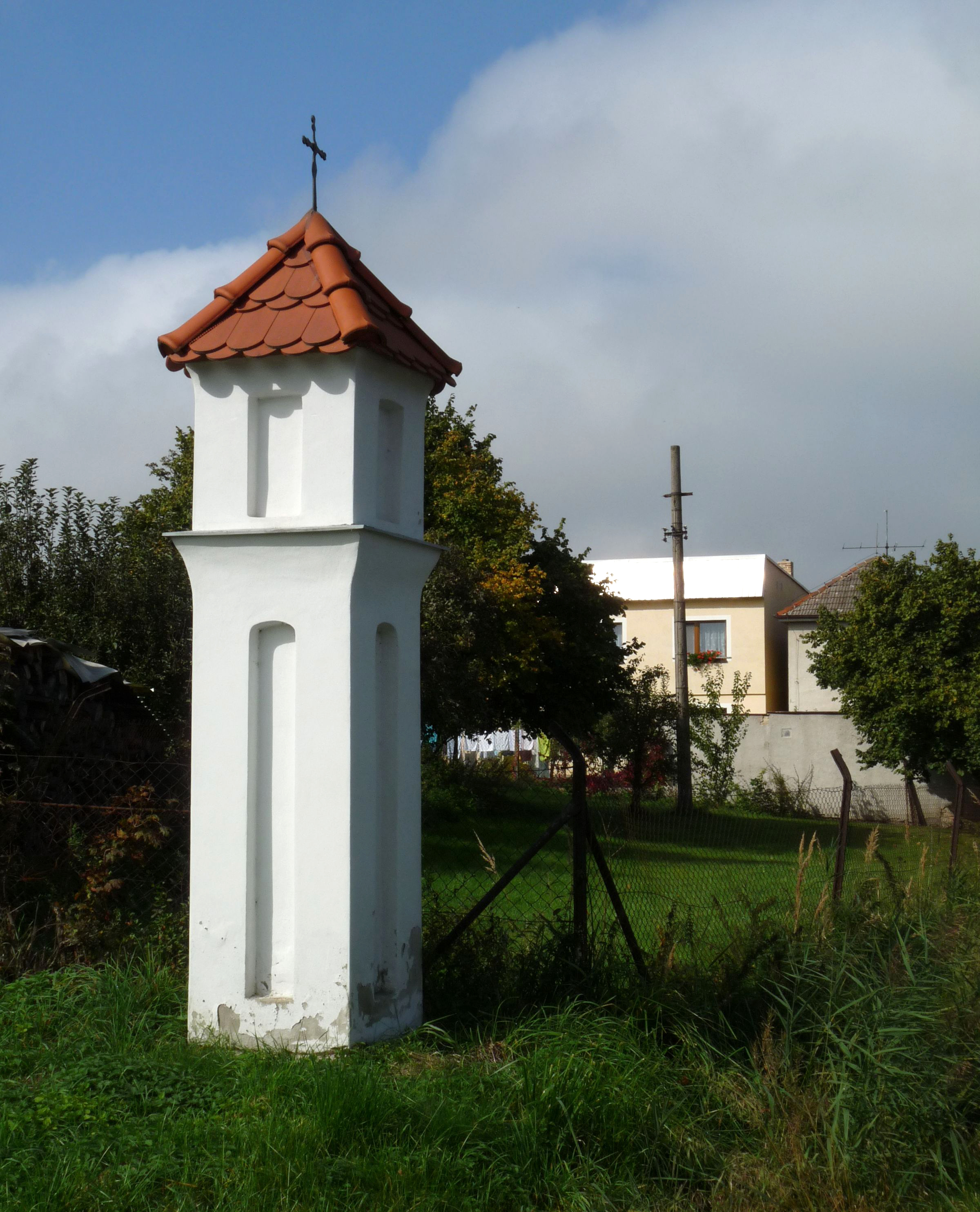 Wayside shrine in the village of Mydlovary, České Budějovice District, South Bohemian Region, Czech Republic.